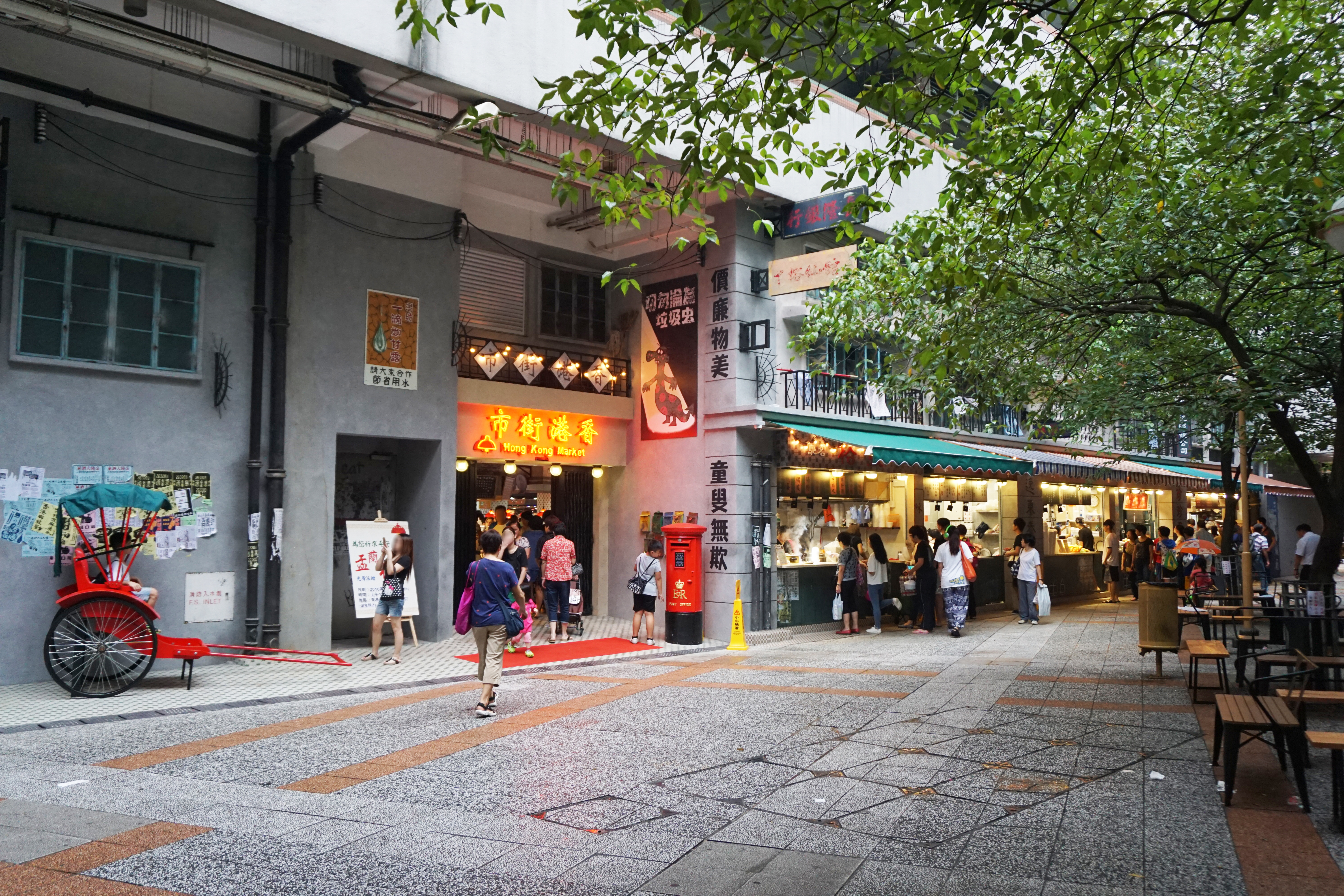 Hong Kong Market in Tung Chung, Hong Kong.